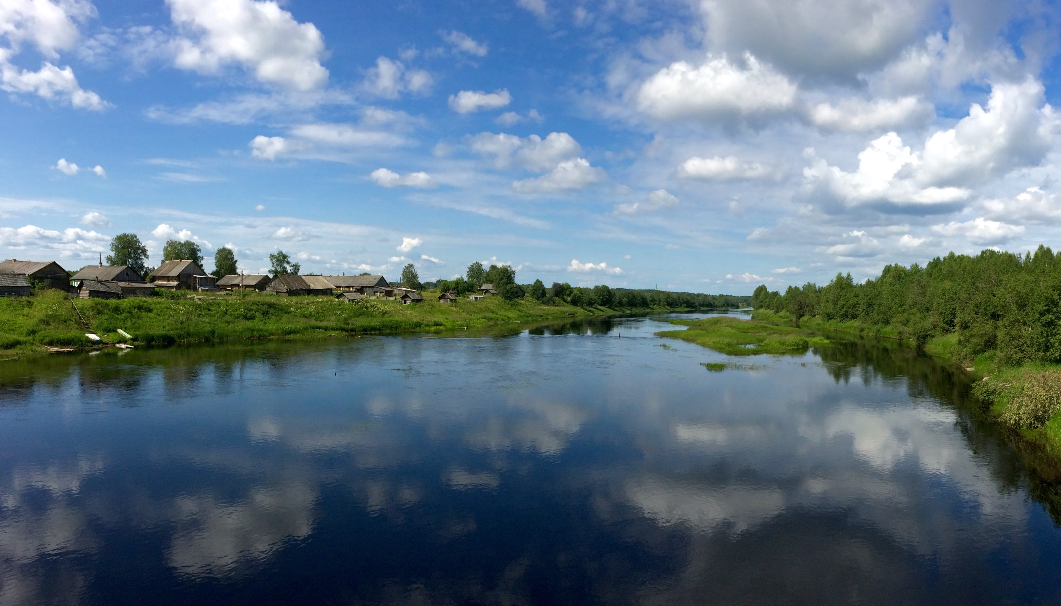 village of Koryakino on Kena River, Arkhangelsk Oblast, Russia